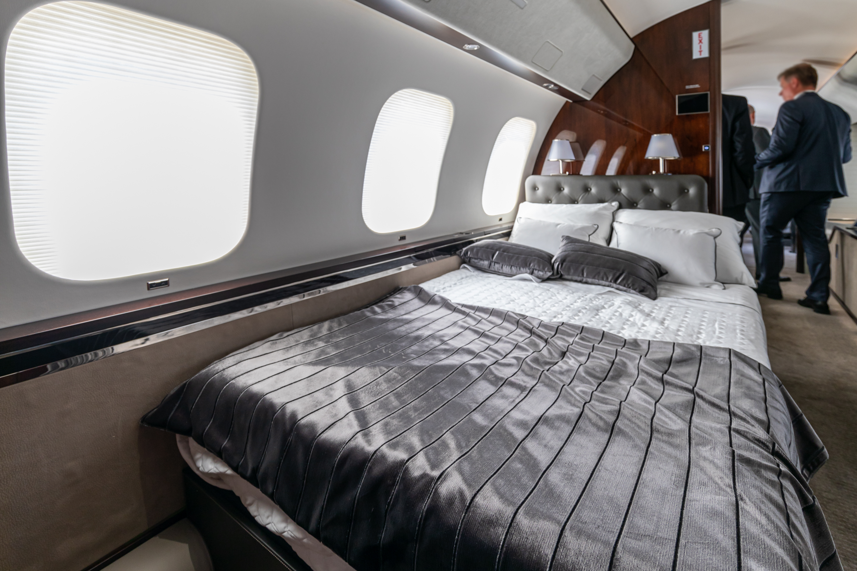 Cabin of a Bombardier Global 7500 at Paris Air Show 2019